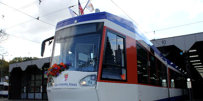 Darmstadt train showcasing San Antonio partnership